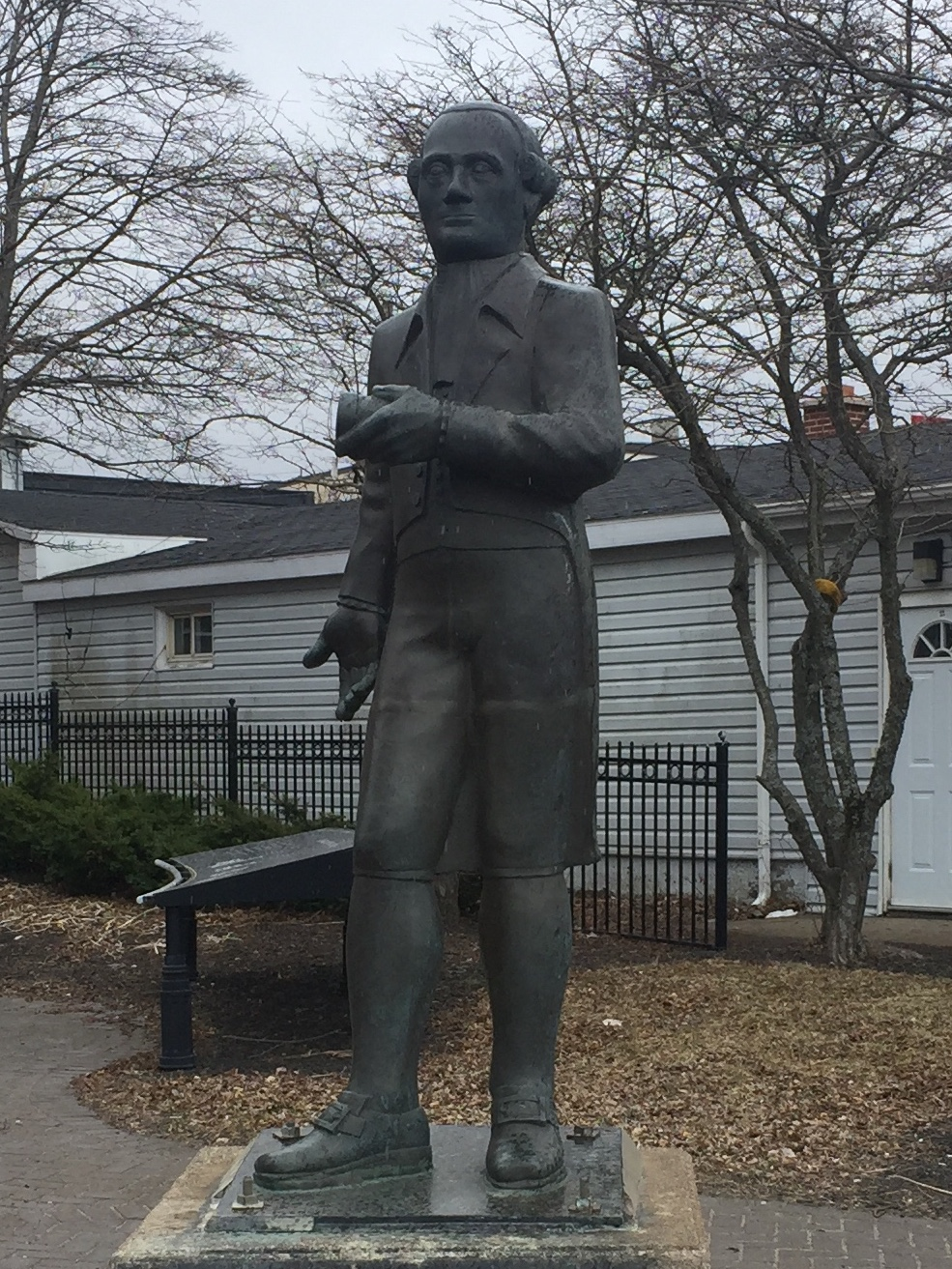 Joseph Frederick Wallet DesBarres Statue, Sydney, Nova Scotia